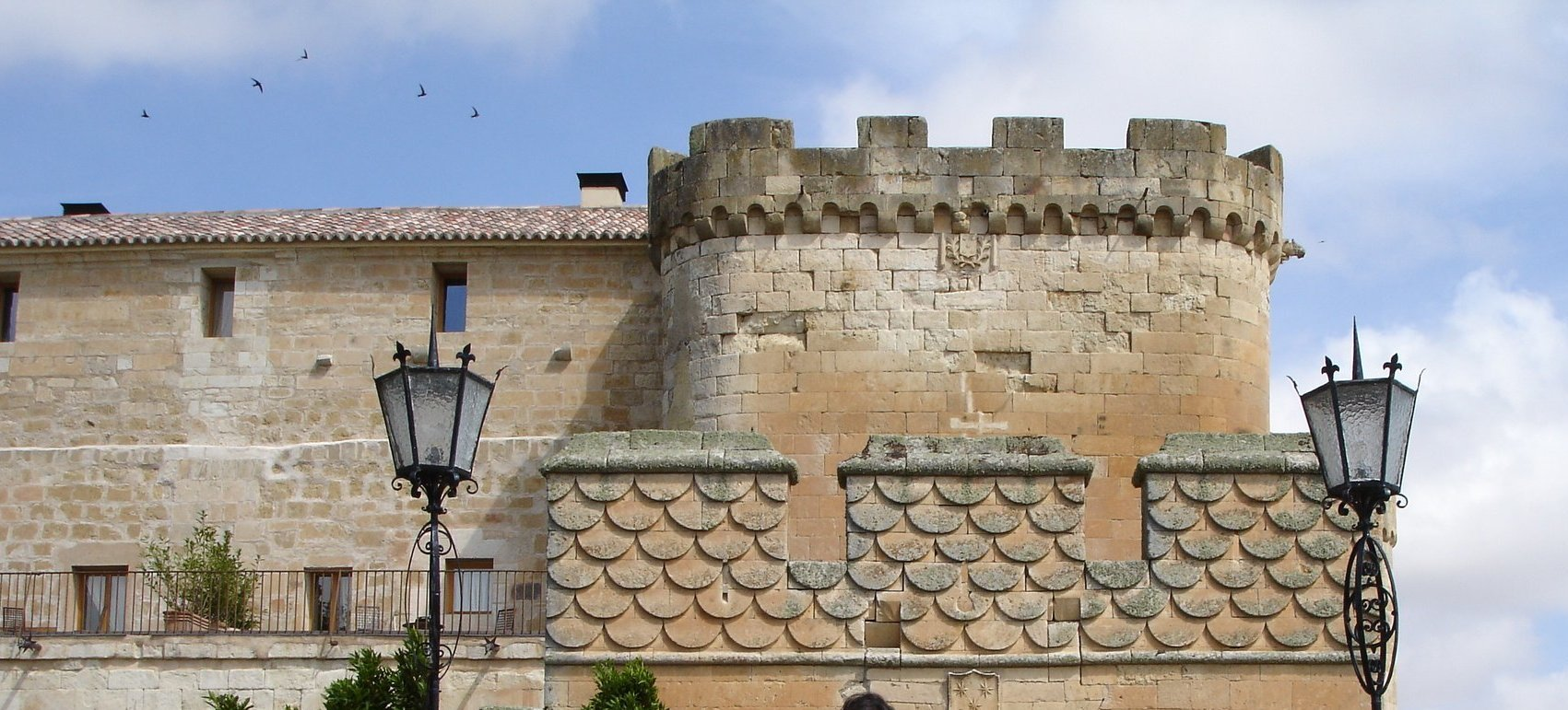 Caste of Villanueva del Cañedo (Castillo del Buen Amor). Topas (Salamanca)